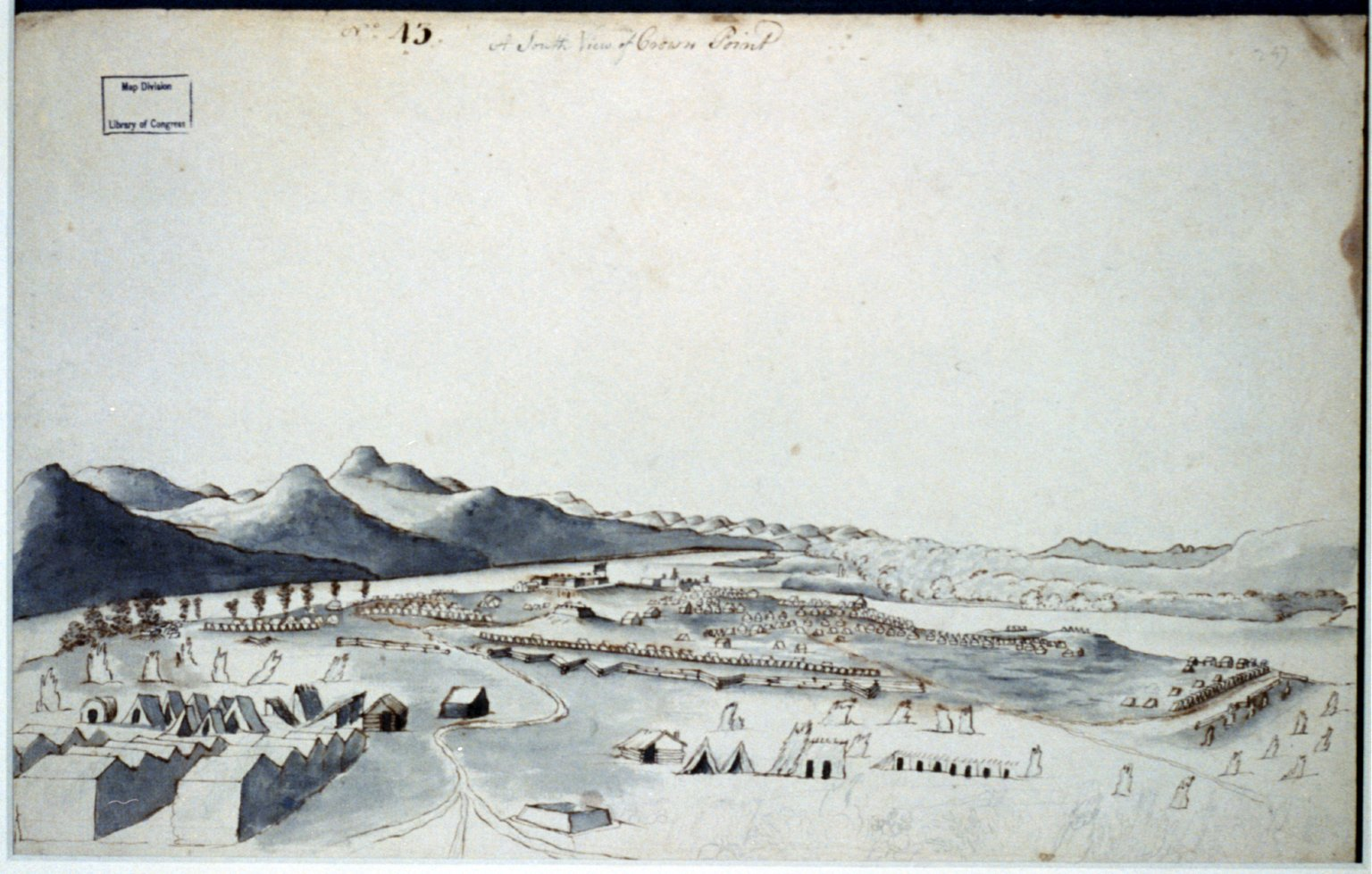 A south view of Crown Point. Davies, Thomas, ca. 1737-1812, artist. Date Created/Published: [1760] Medium: 1 drawing : gray wash, black & sepia ink. Library of Congress Prints and Photographs Division Washington, D.C.